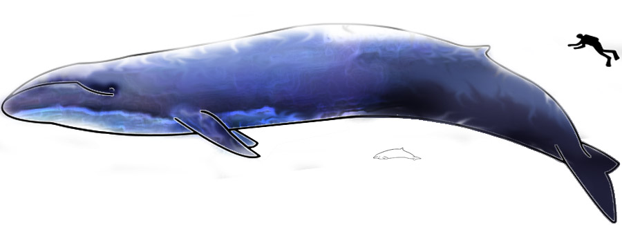 Largest and smallest whale (Blue Whale and Hector Dolphine)